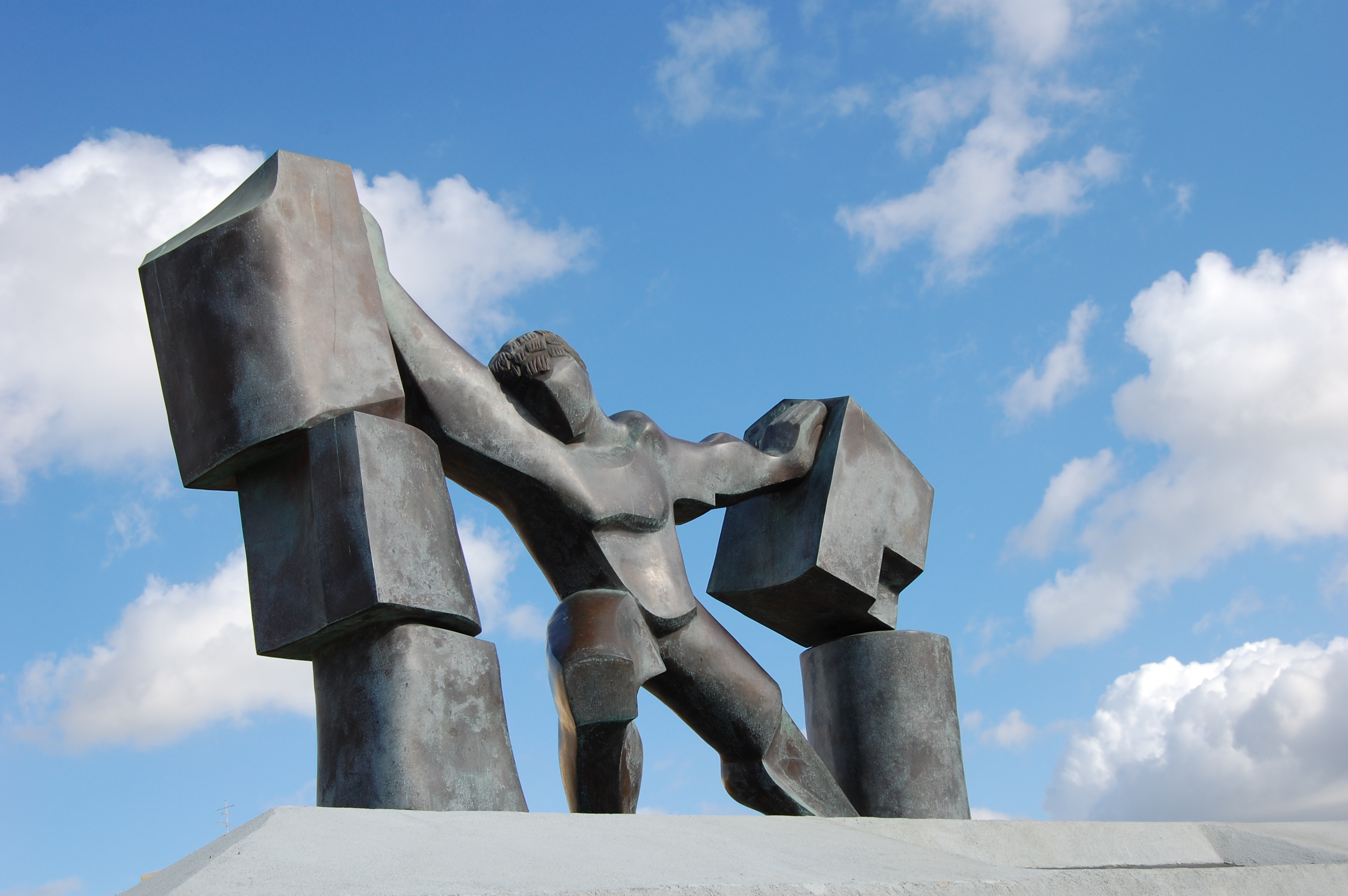 Ashdod, Geography of Israel